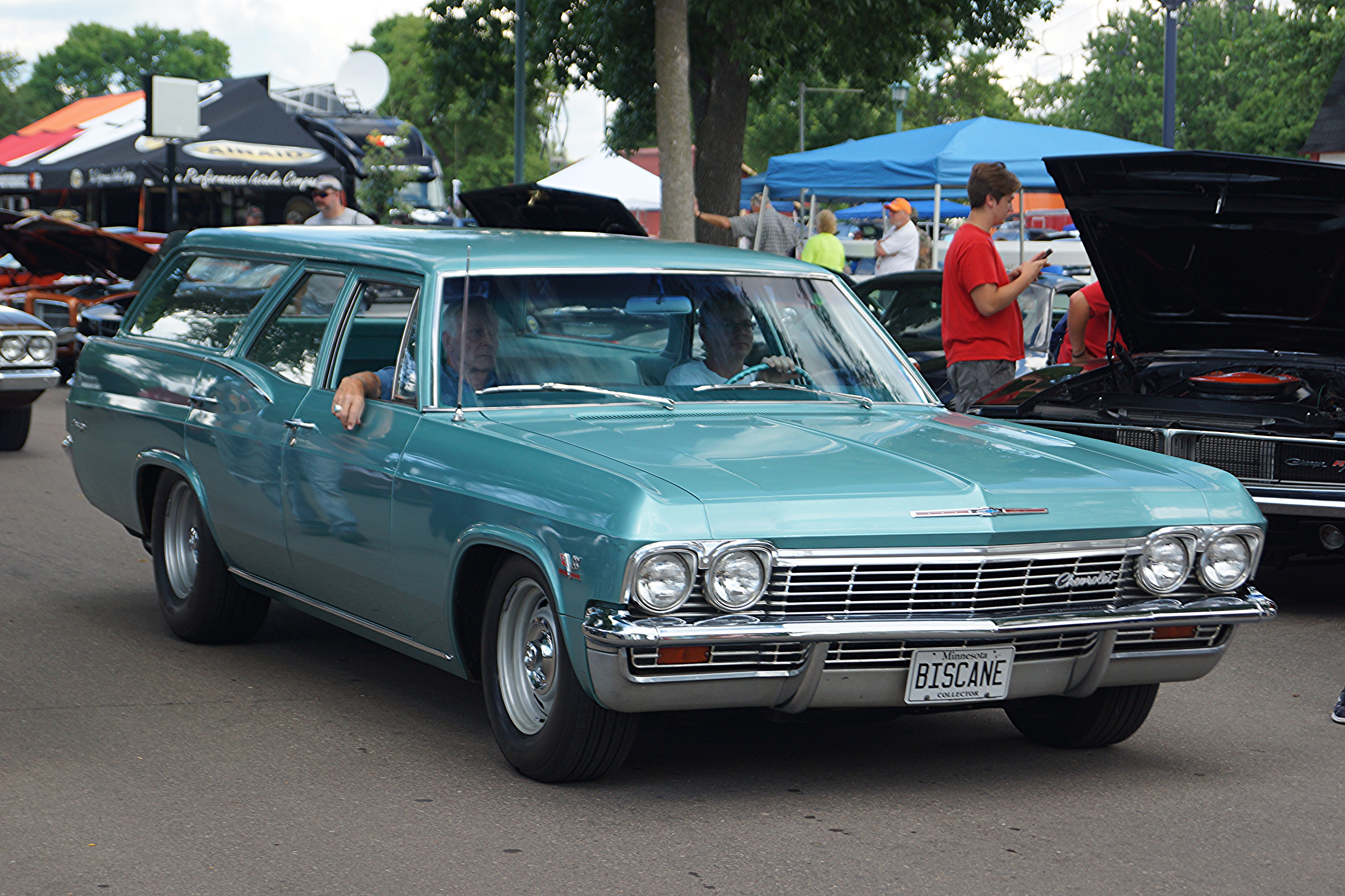 Click here for more car pictures at my Flickr site. O'Reilly Auto Parts Street Machine Summer Nationals Minnesota State Fairgrounds St. Paul, Minnesota July 2016